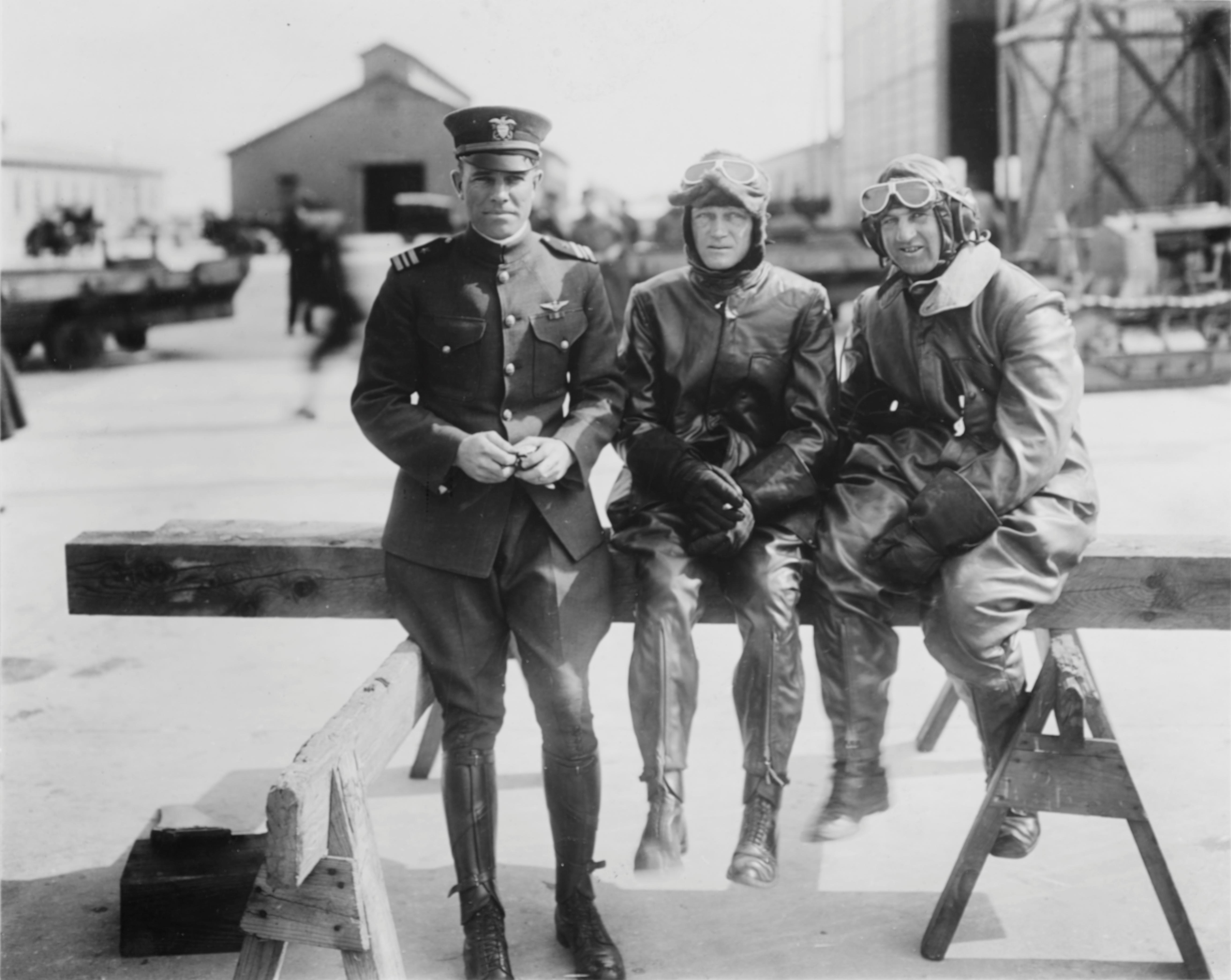 Photographed on 3 May 1919, prior to their trans-Atlantic flight attempt. They are (left to right): Lieutenant Commander Patrick N.L. Bellinger; Lieutenant Commander Marc A. Mitscher; and Lieutenant Louis T. Barin. U.S. Naval History and Heritage Command Photograph.